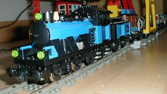 Lego My Own Train Set